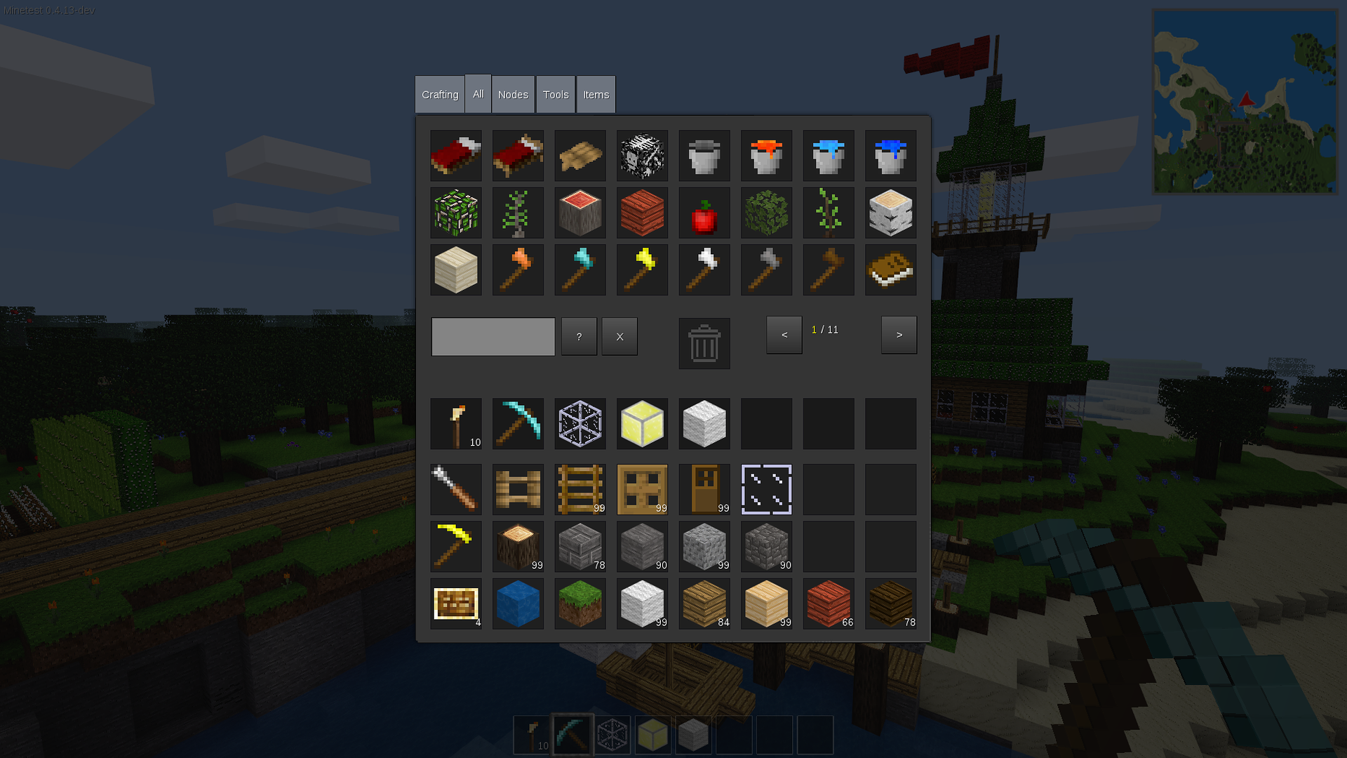 A screenshot by a Minetest player, LazyJ, showing creative inventory. Using Minetest 0.4.13-dev (self-compile).